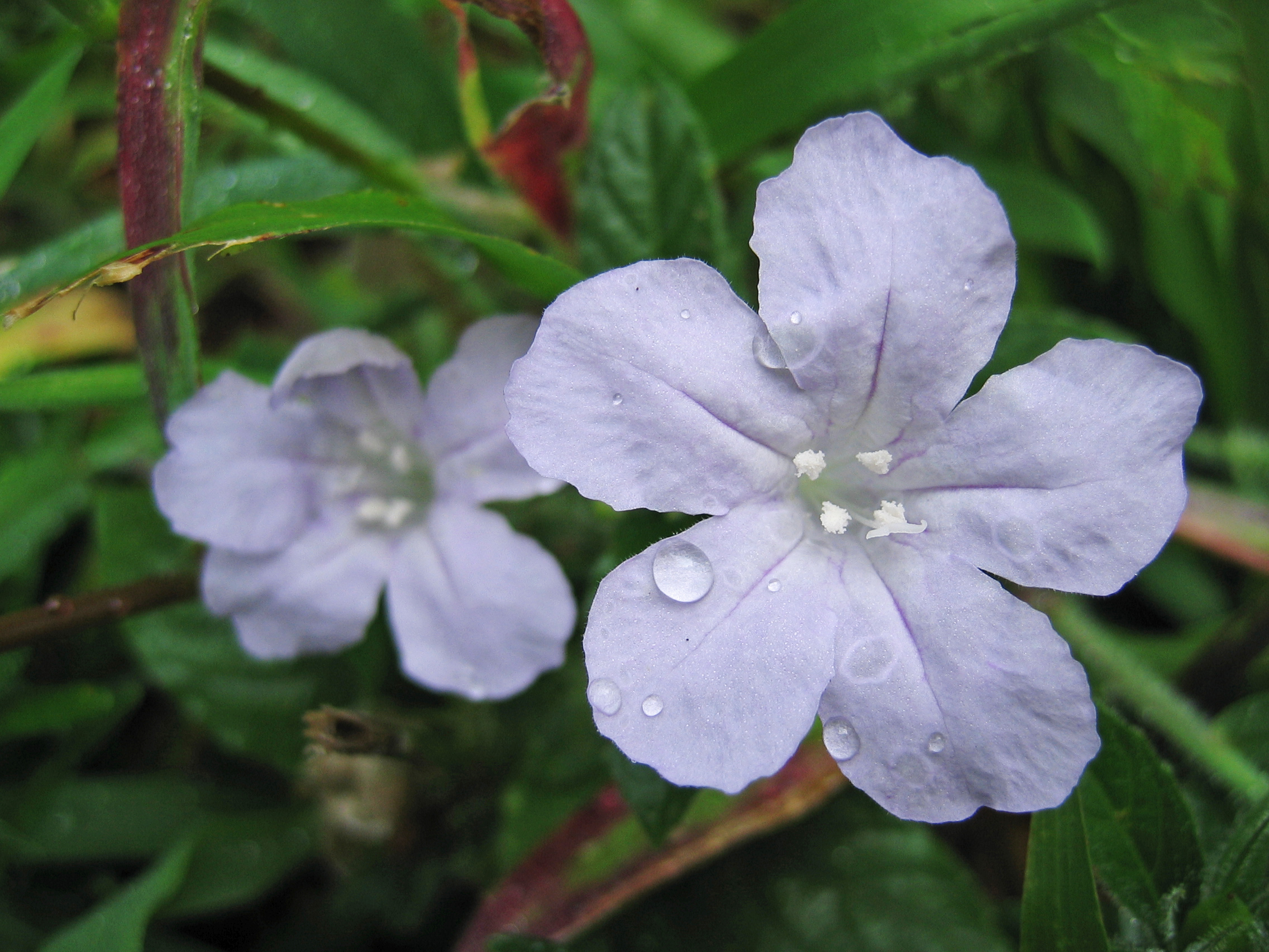 Photo of Blue Wild Petunia (Ruellia caroliniensis) flowers in northern Florida, USA.